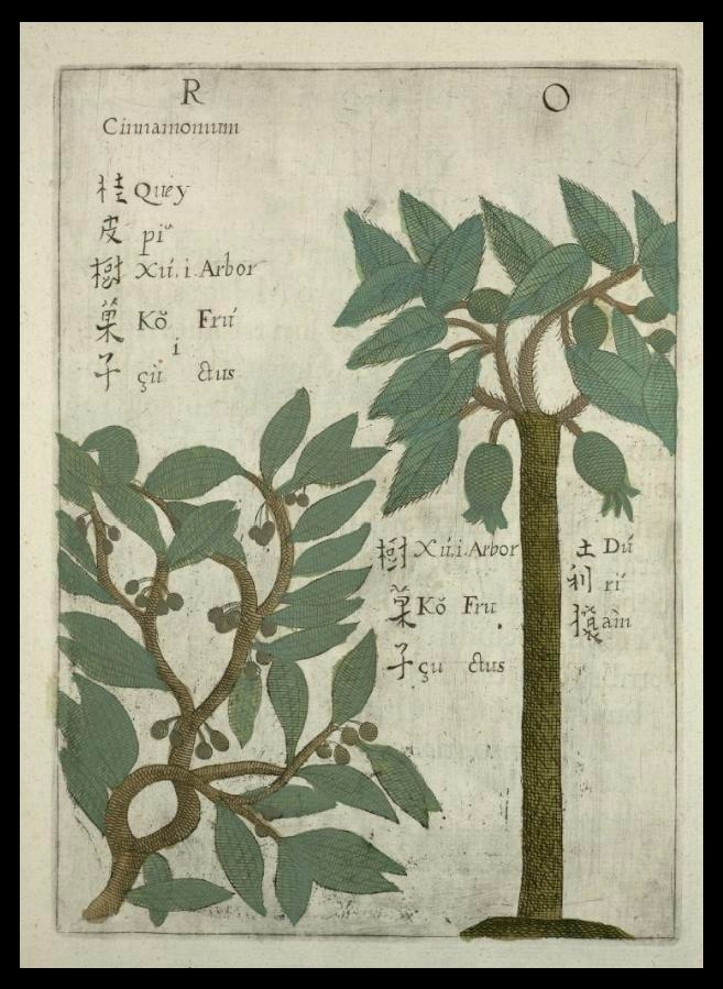 One of the earliest natural history books about China. Jesuit Missionary author. (obviously includes some non-Chinese {and non-floral} species)